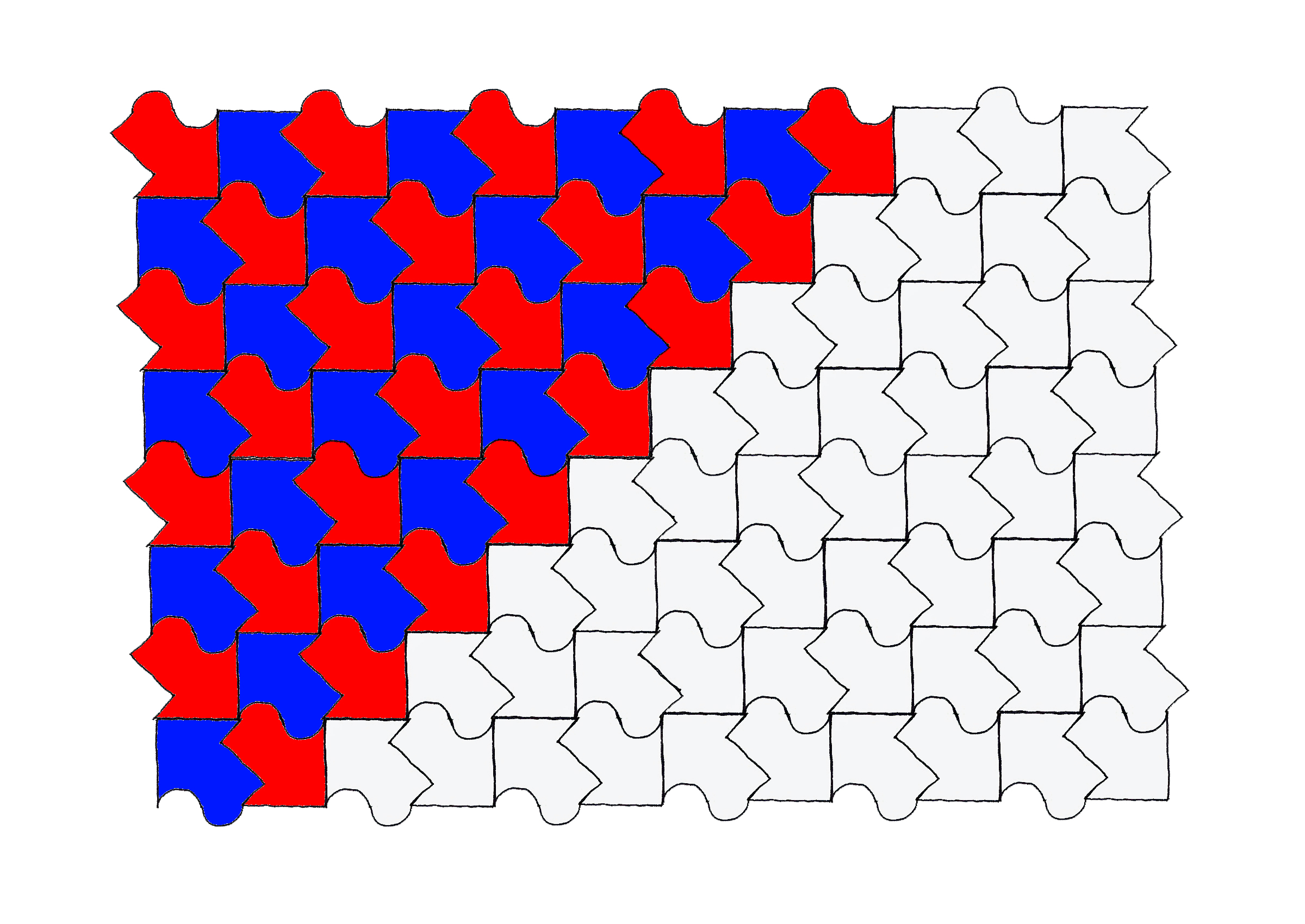 tessellation, pattern